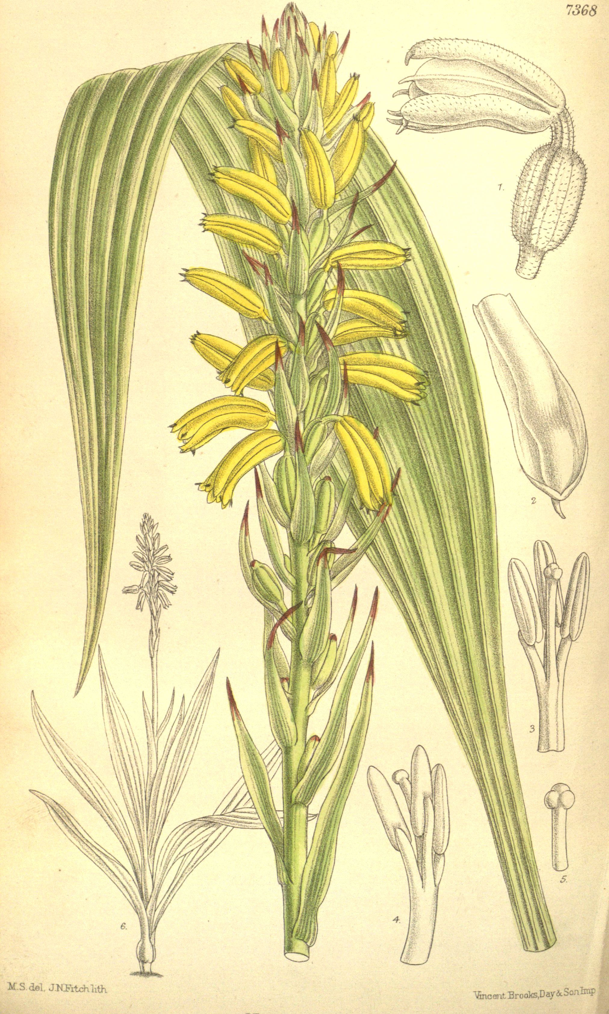 Illustration of Neuwiedia veratrifolia (as syn. Neuwiedia lindleyi) (cropped)